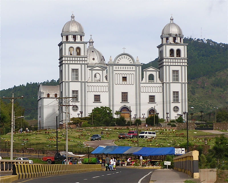 The Basilica of the Virgin of Suyapa, Tegucigalpa, Honduras, July 2004.